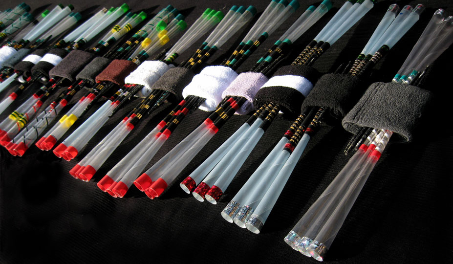 arrows